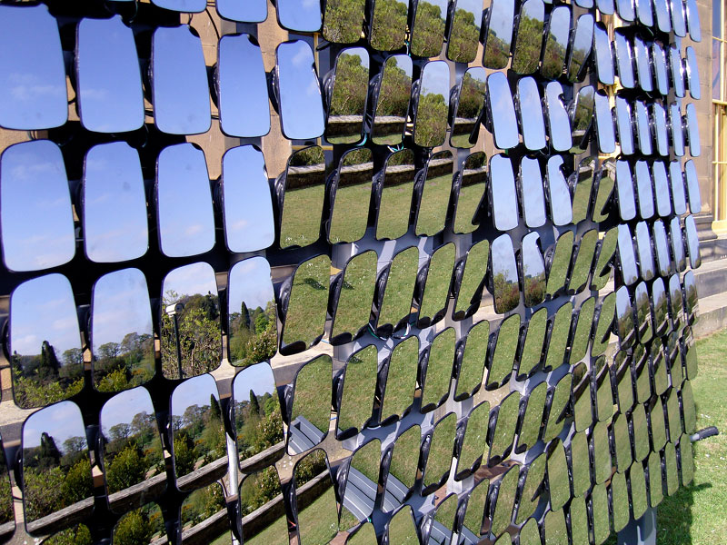 'Aleph reorganizing vision' is a kinetic reflection display system by Bengt Sjölén and Adam Somlai-Fischer. Aleph is an experimental public display, that is using the spaces, people and objects it faces as a palette to display messages from hidden viewpoints. When looking at a small mirror, it reflects a fraction of the space around us, when looking at a mirror façade, it reflects most things around us, containing segments that are dark or bright, red or green. But if we build a matrix of small mirrors, which can adjust their tilt according to the site they are facing, we can create a display that uses the ever changing flux of the place to show images from certain points in space.